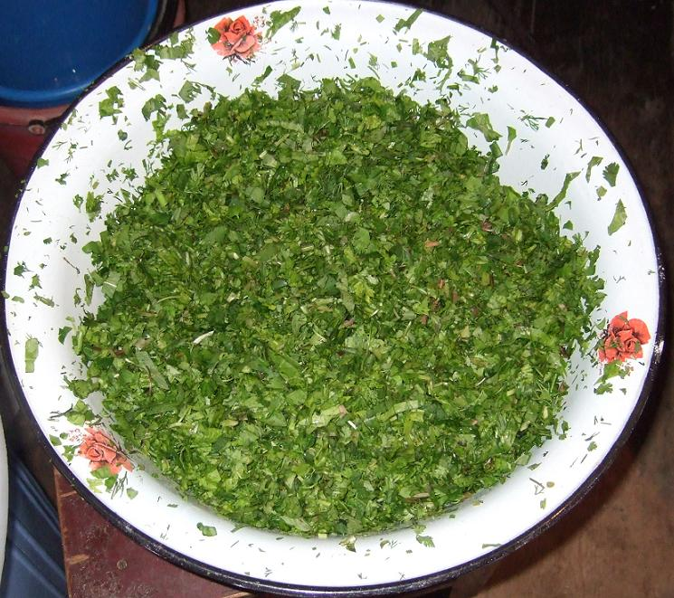 zhengyal